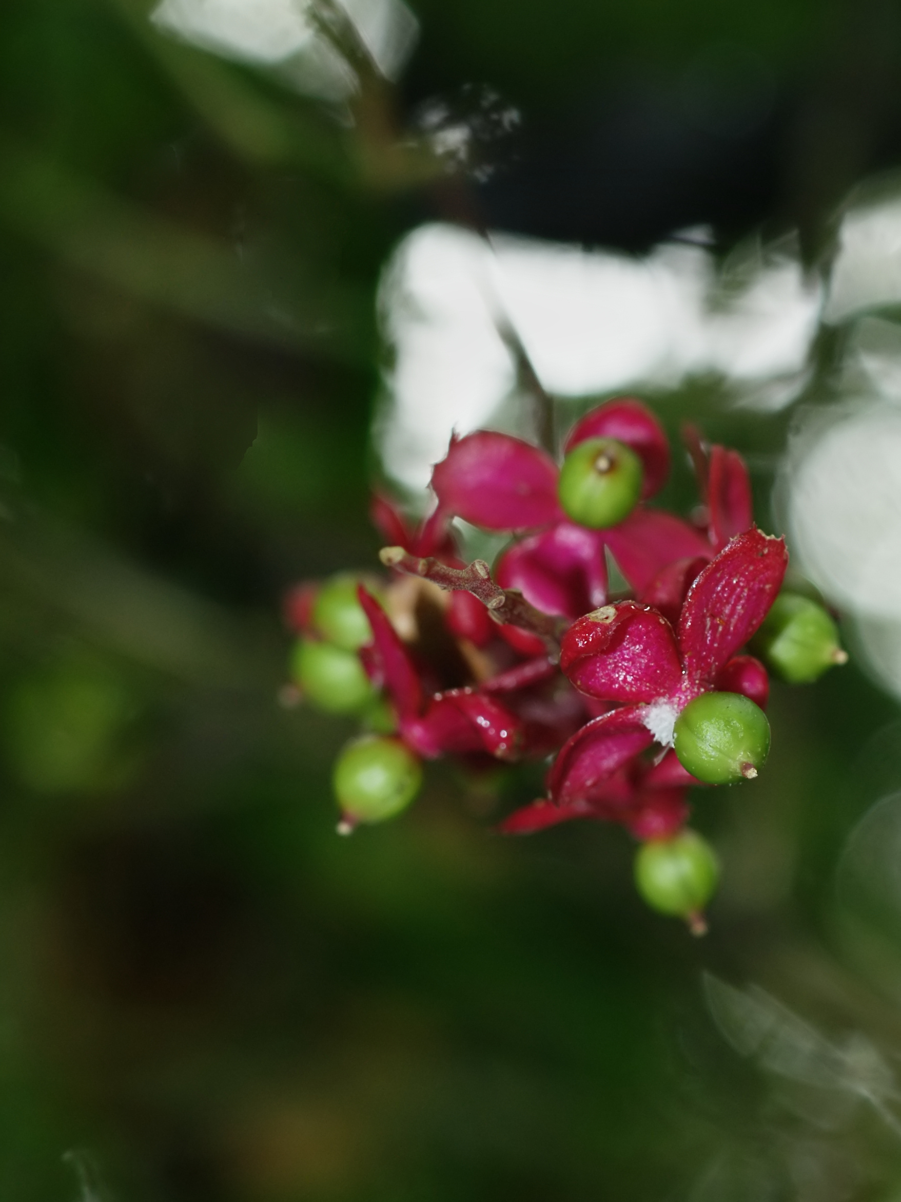 A hoop vine at La Selva Biological Station, near Puerto Vieja de Sarapiqui, Costa Rica